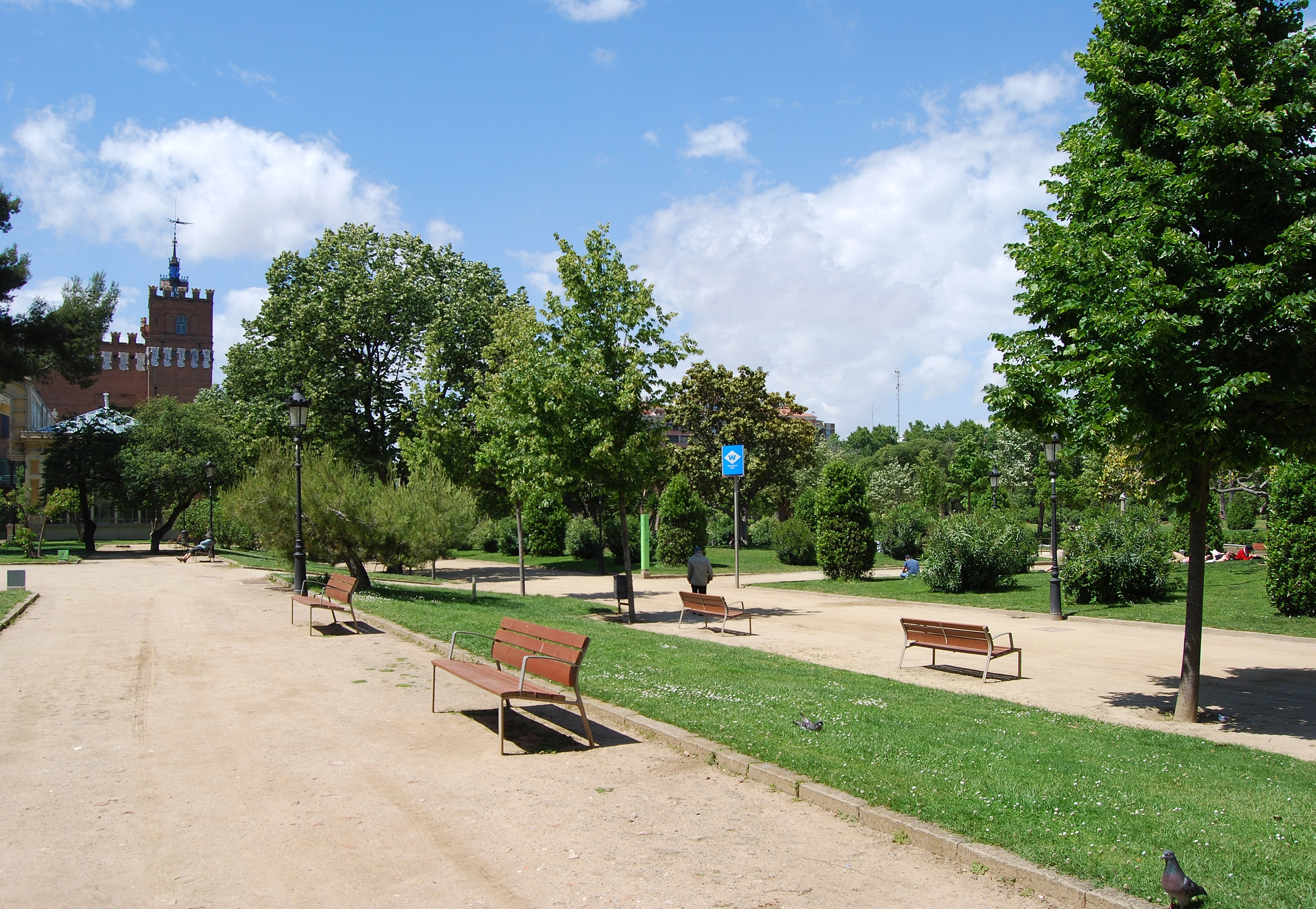 Parc de la Ciutadella, Ciutat Vella, Barcelona.